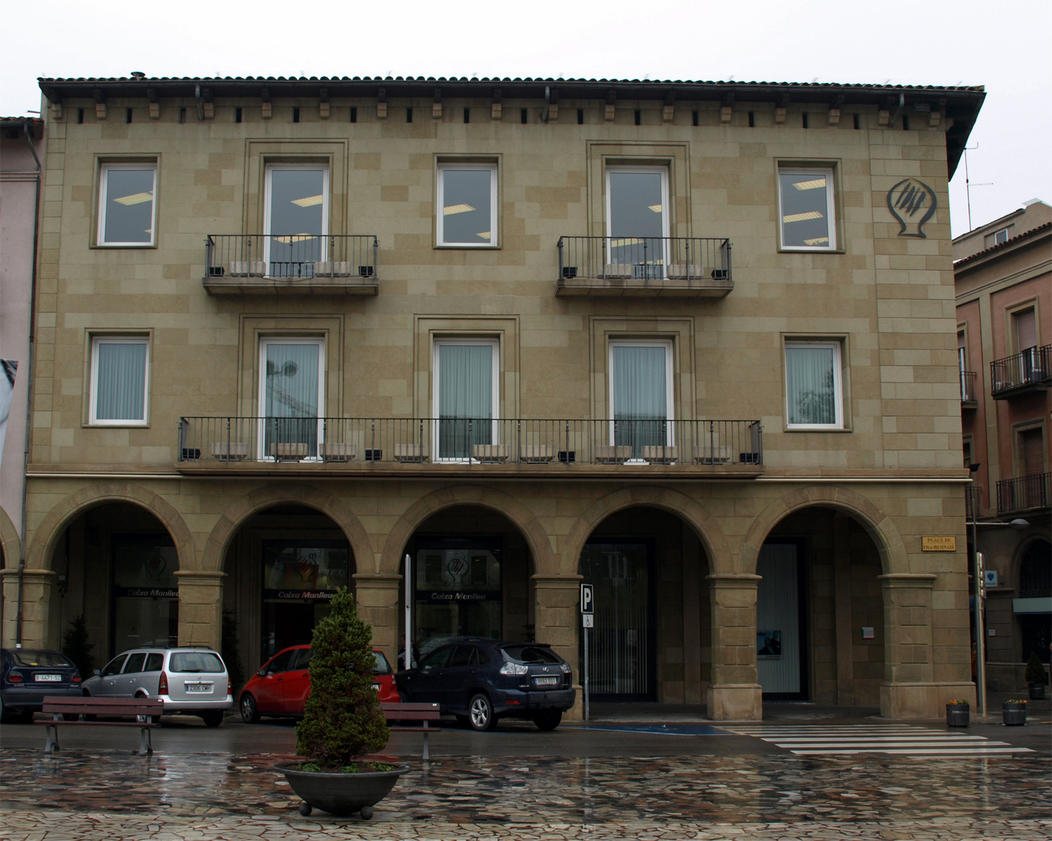 Caixa Manlleu (headquarters in Manlleu, Catalonia, Spain).